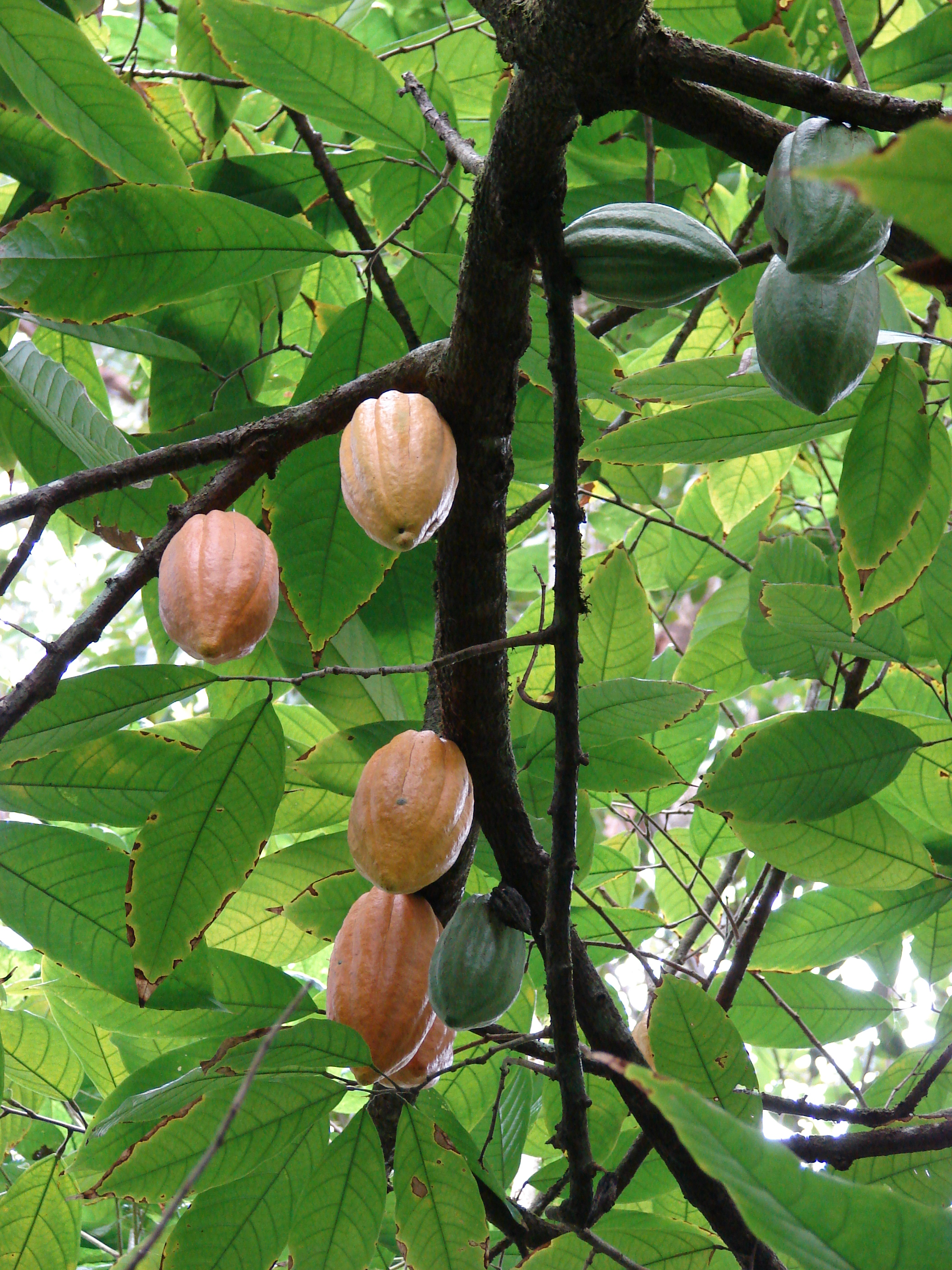 Theobroma cacao (fruit). Location: Maui, Hana Hwy